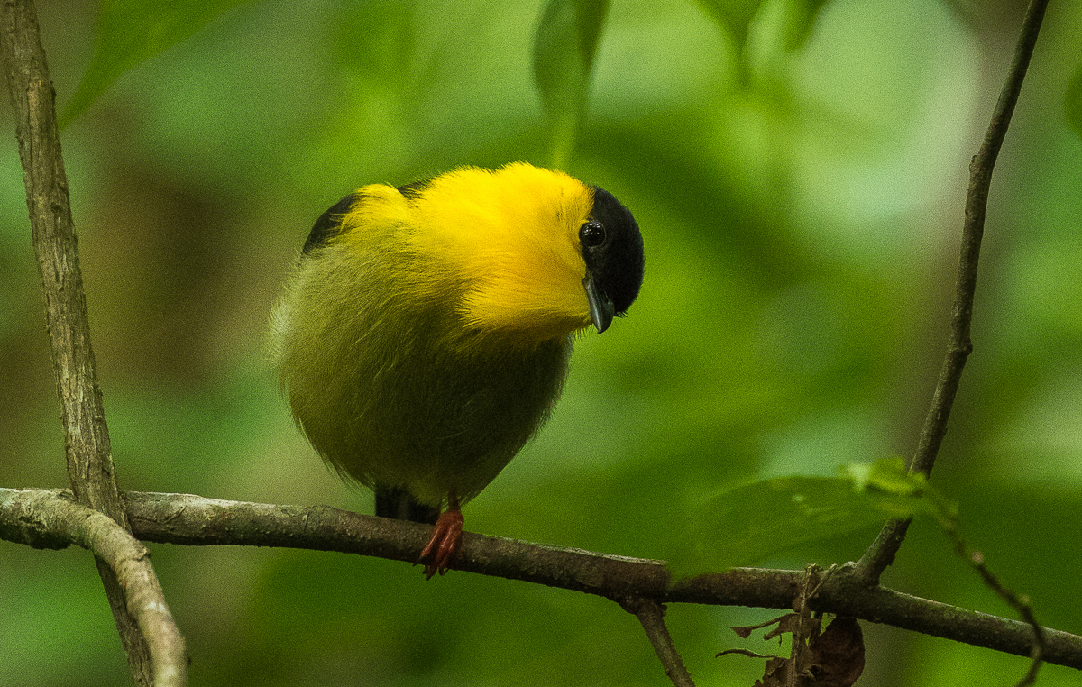 Golden-collared Manakin - Darien - Panama CD5A1281